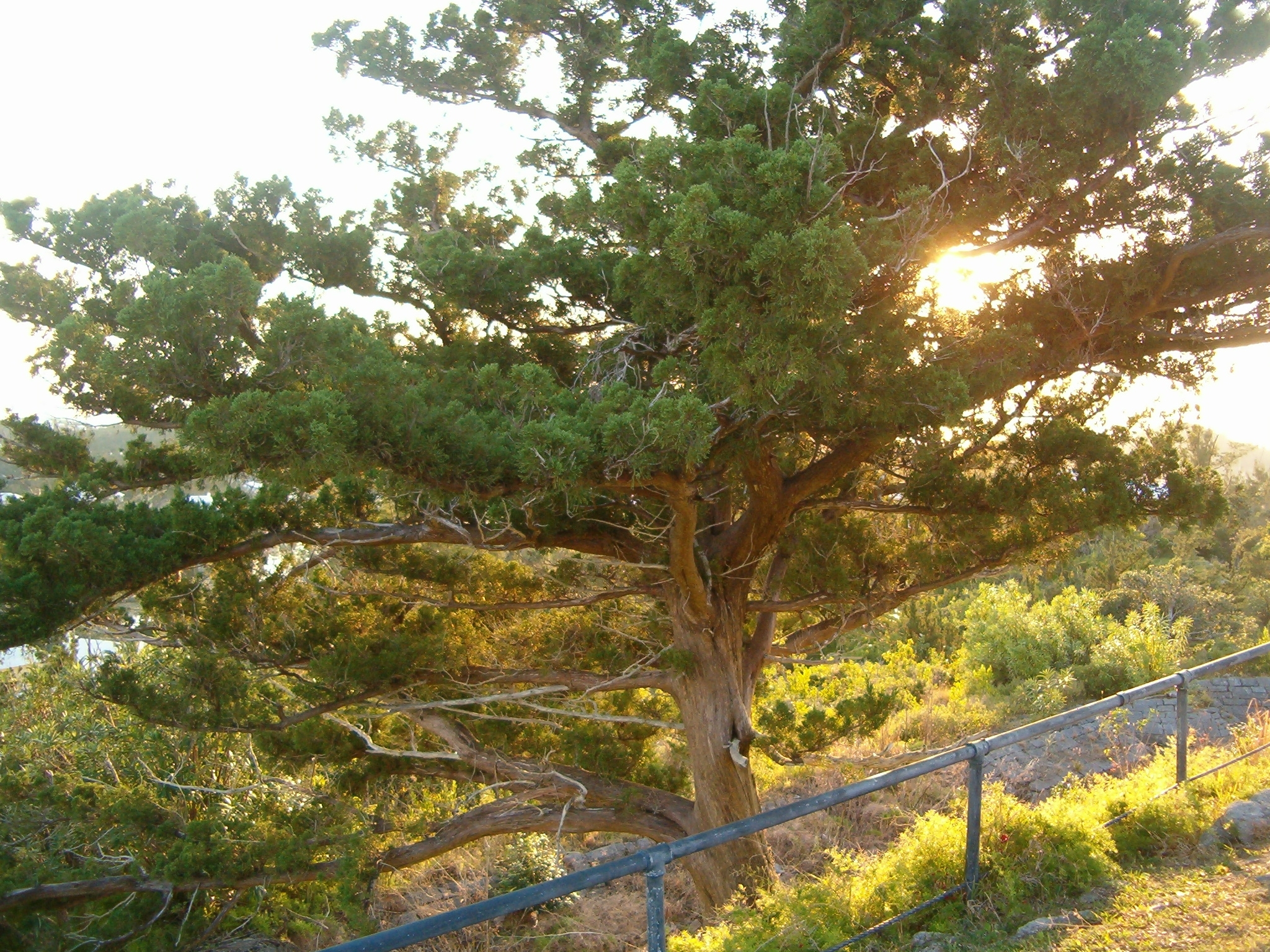 A Bermuda Cedar at Scaur Hill Fort, on Somerset Island, Bermuda.